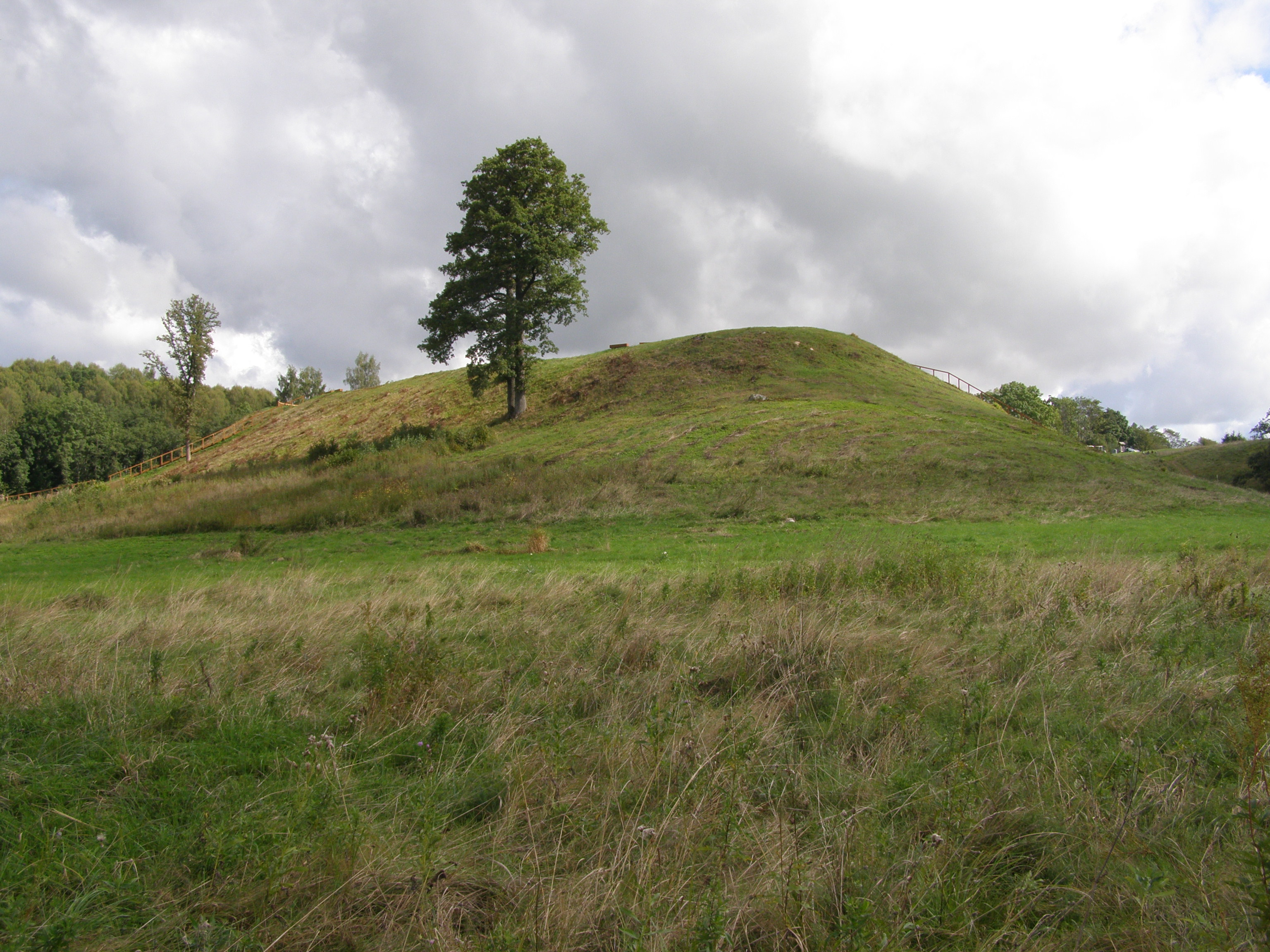 Imbarė hillfort, Kretinga district, Lithuania